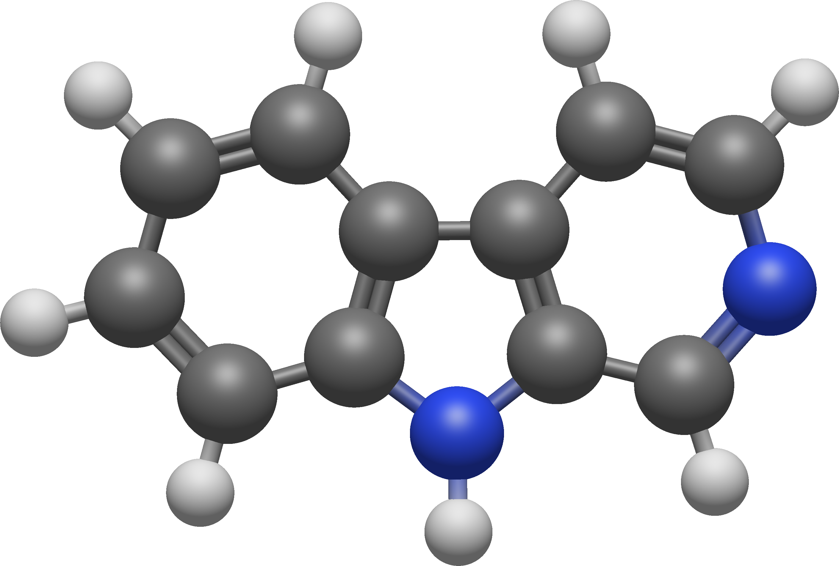 The prototype of a class of compounds known as β-carbolines.